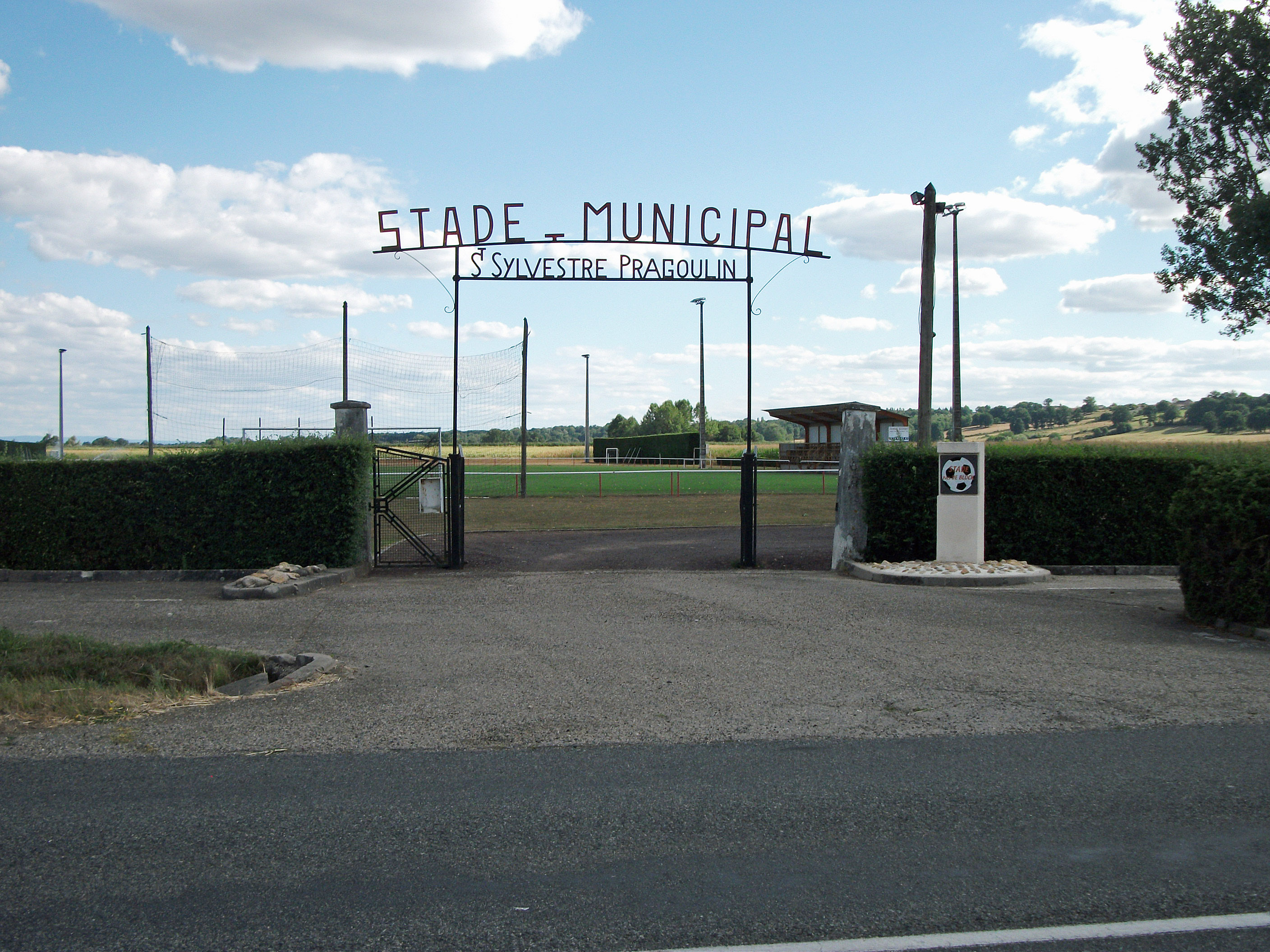 Entrance of municipal stadium of Saint-Sylvestre-Pragoulin, Puy-de-Dôme, Auvergne, France [8451]